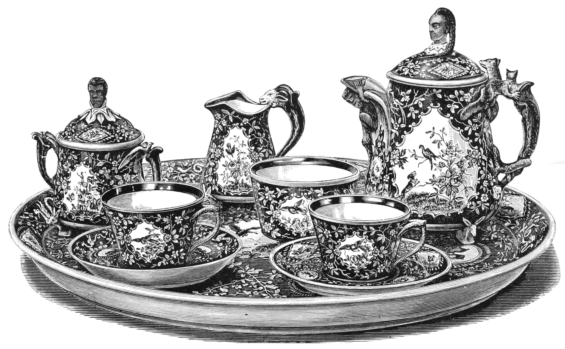 Tète a tète set, by the Union Porcelain Works